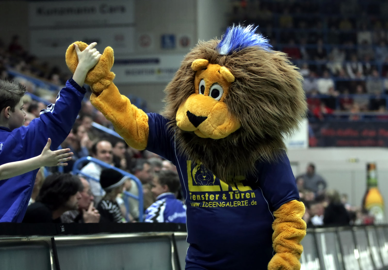 Leo Löwenherz, the mascot of TV Großwallstadt on March 24th 2007 in Aschaffenburg (Germany), prior the game TV Grosswallstadt - TBV Lemgo (27:29)